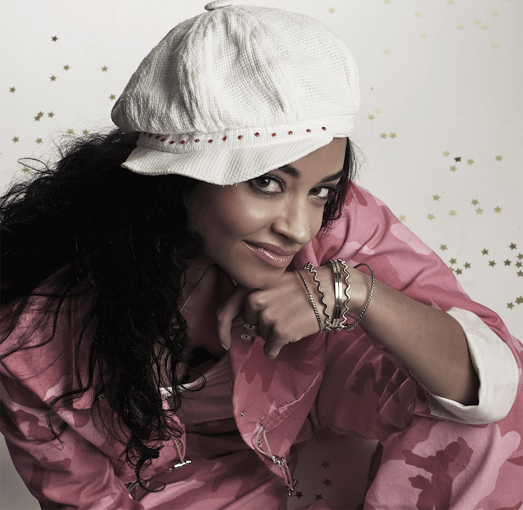 Aliya at her studio